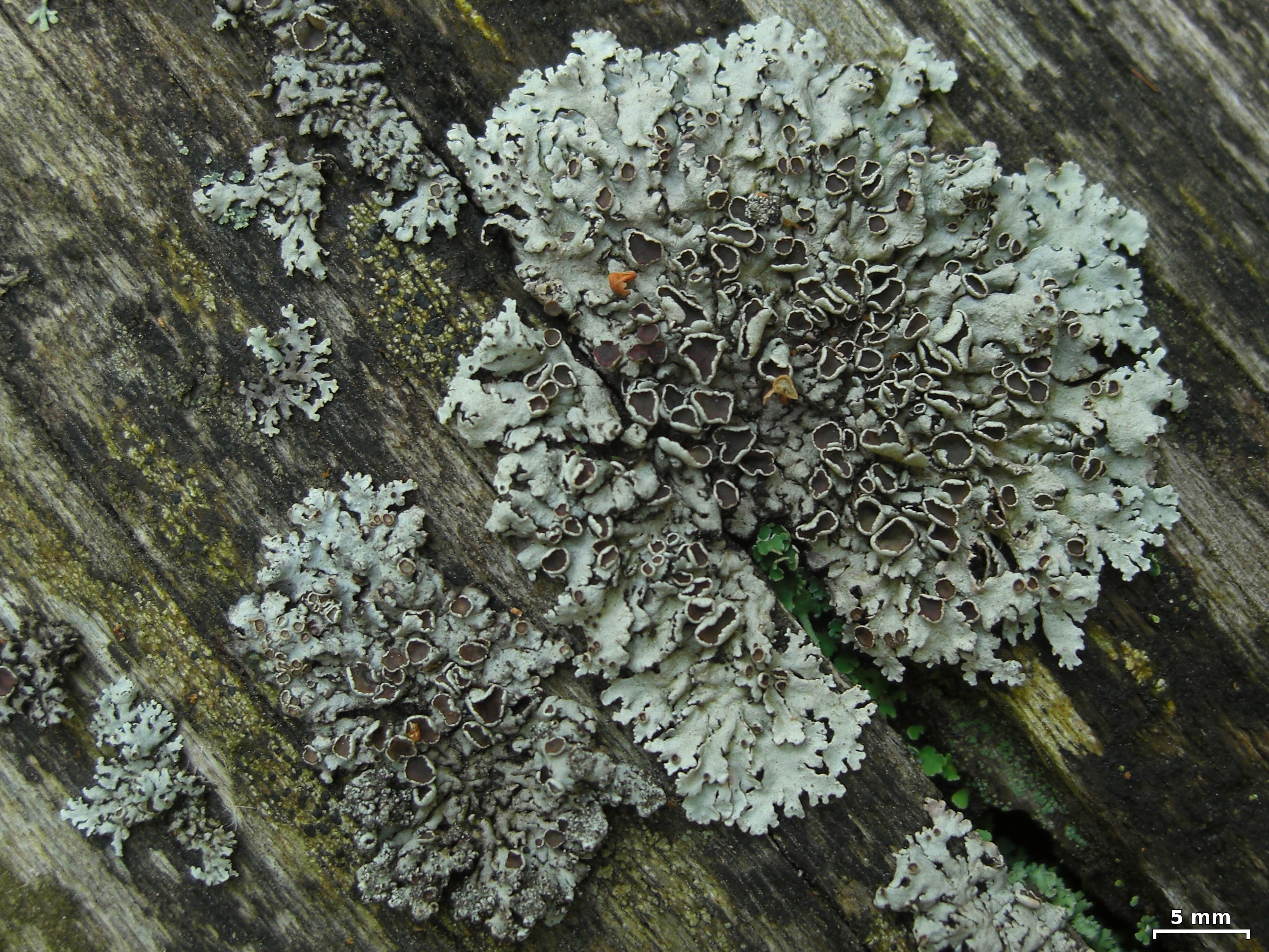 Trail from Willow Creek Horse Camp to Harney Peak, Black Hills, South Dakota, 20110708